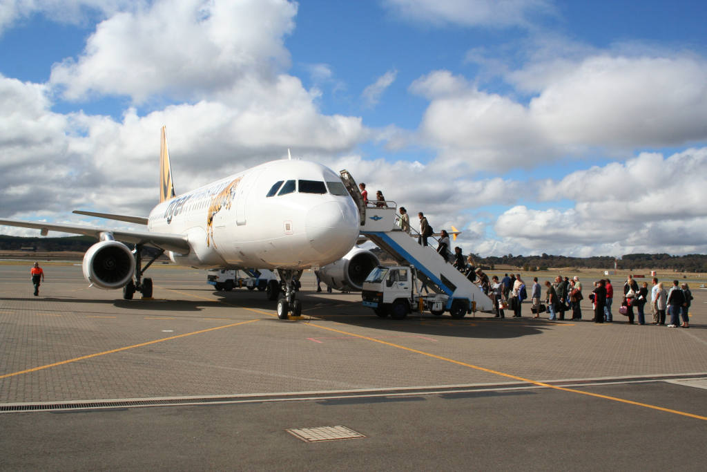 Tiger Airways Australia jet at Canberra International Airport VH-VNB